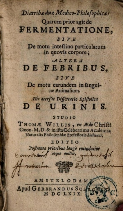 Diatribae duae medico-philosophicae